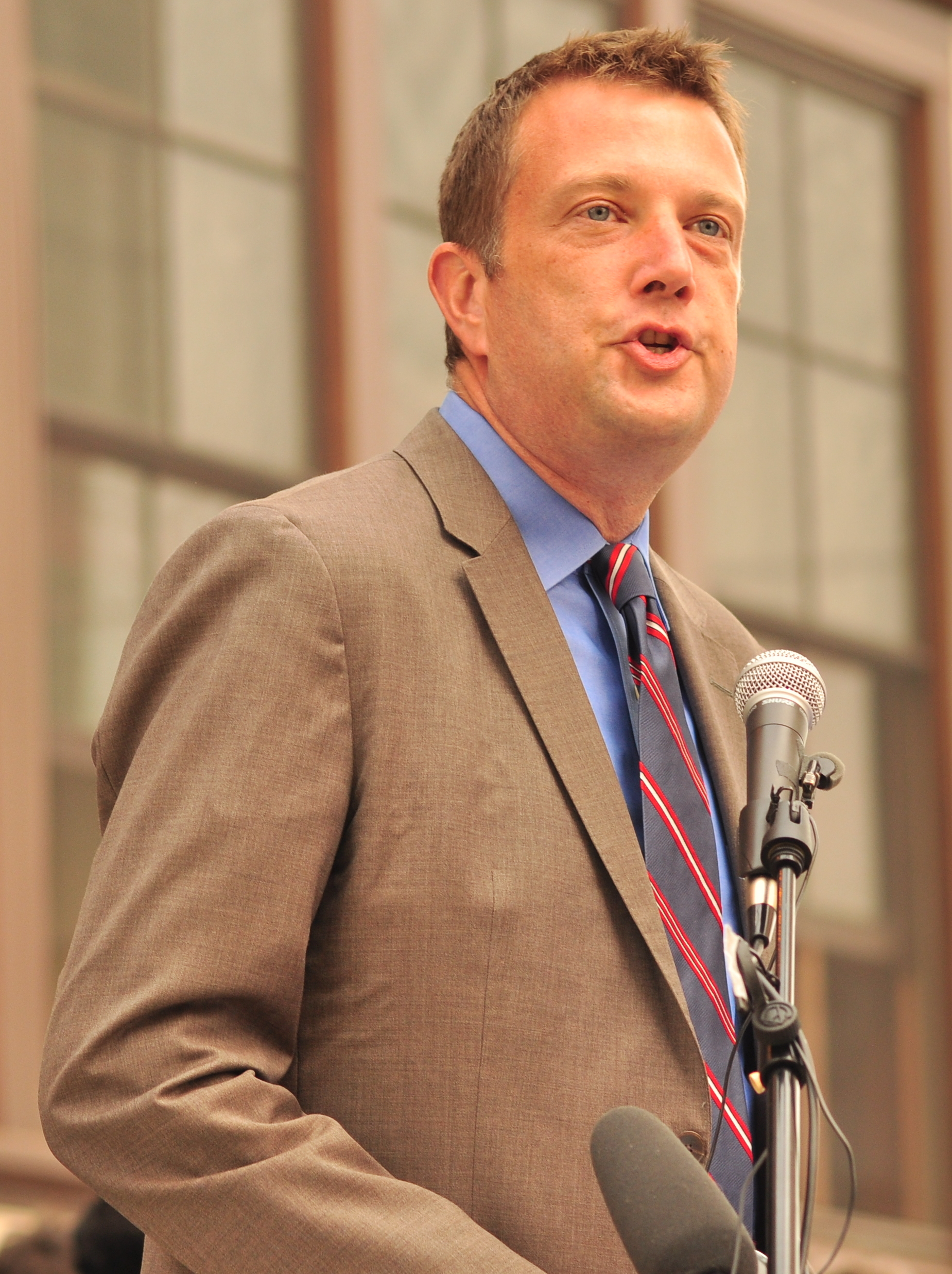 King County Council member Joe McDermott, Defend DACA rally, Plaza Roberto Maestas (outside El Centro de la Raza), Beacon Hill, Seattle, Washington, U.S., September 5, 2017.